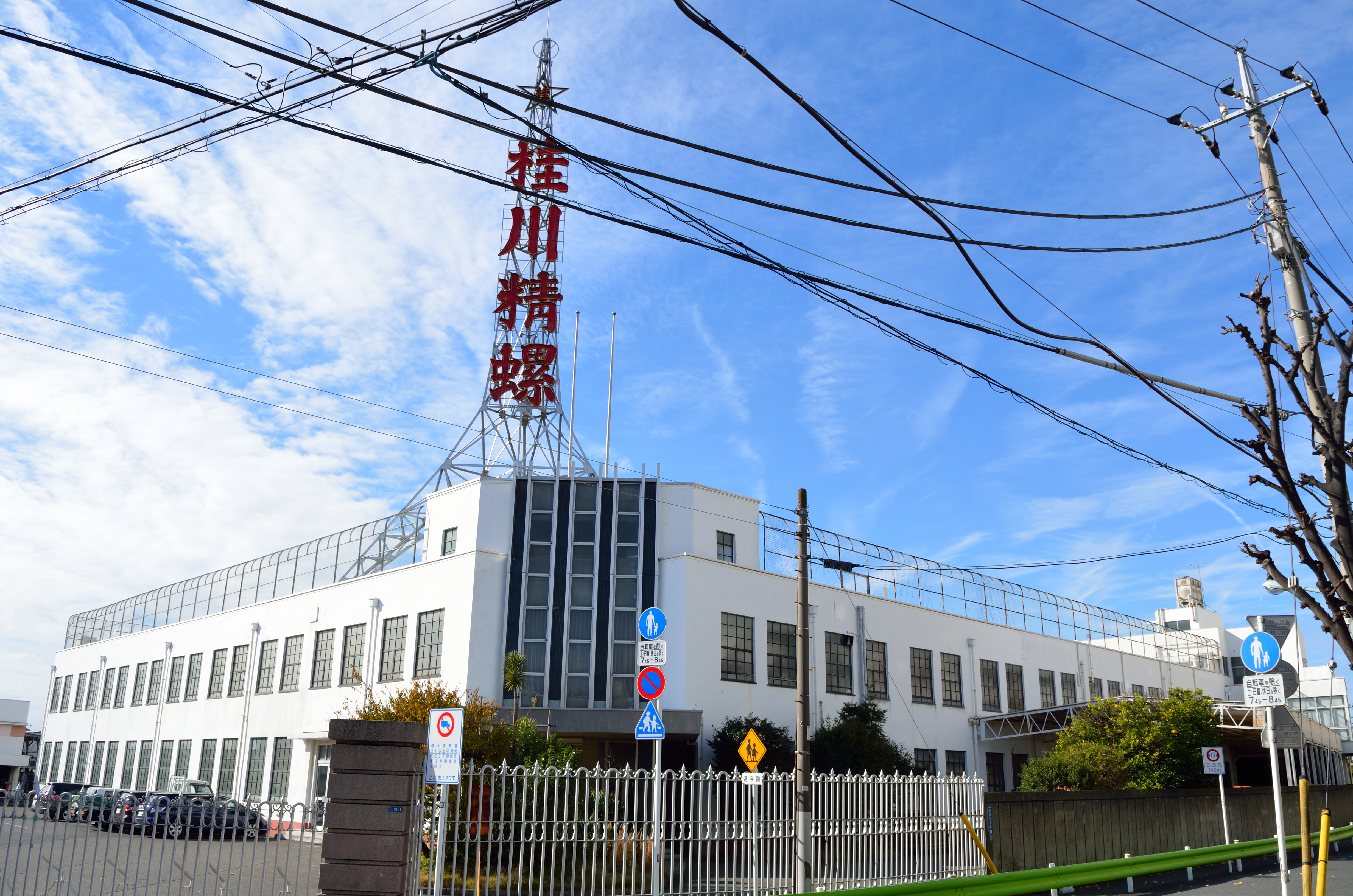 Headquarters of Katsuragawa Seira Co., Ltd. at Ōta, Tokyo.